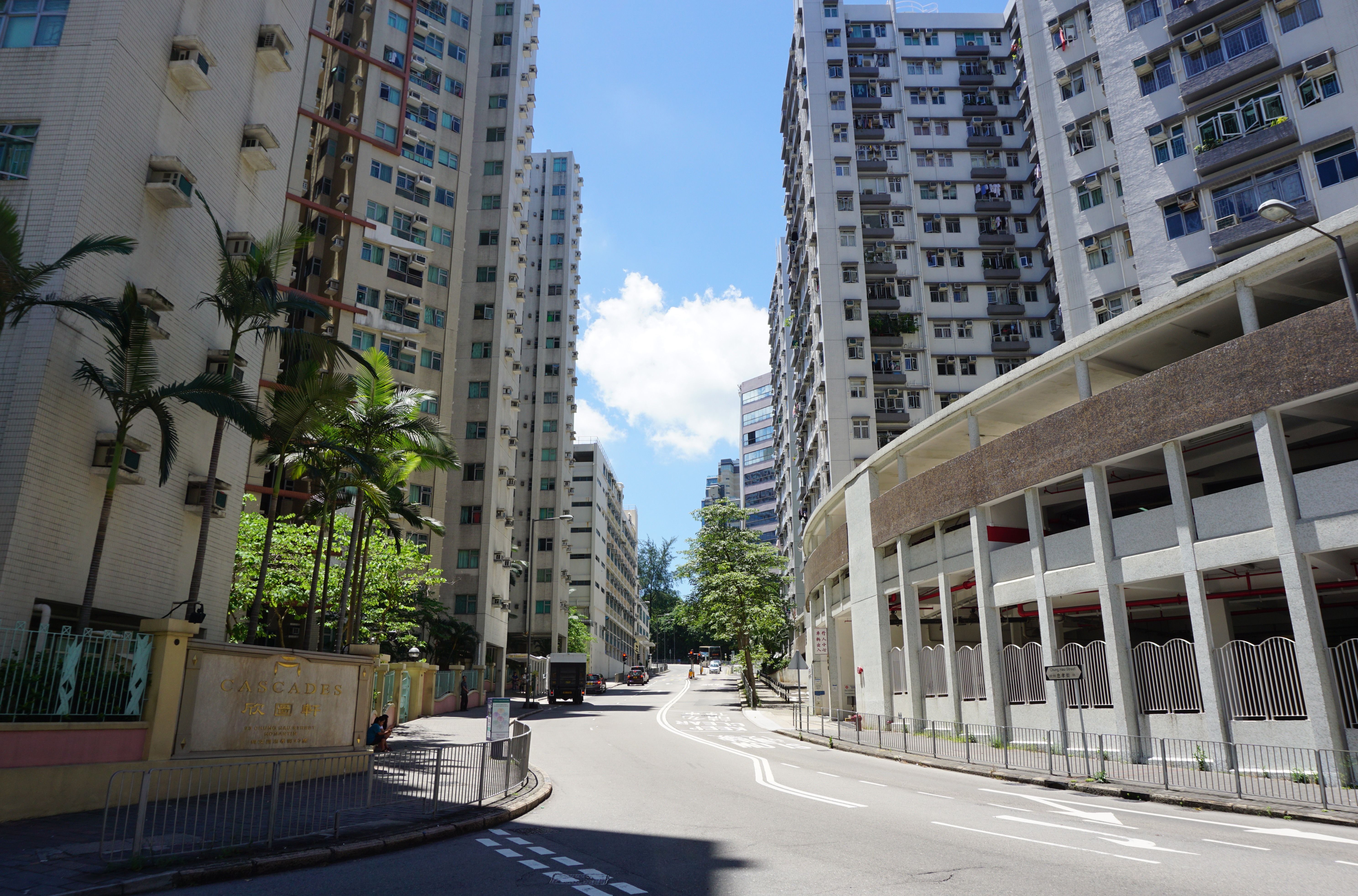 Chung Hau Street in Ho Man Tin, Hong Kong.